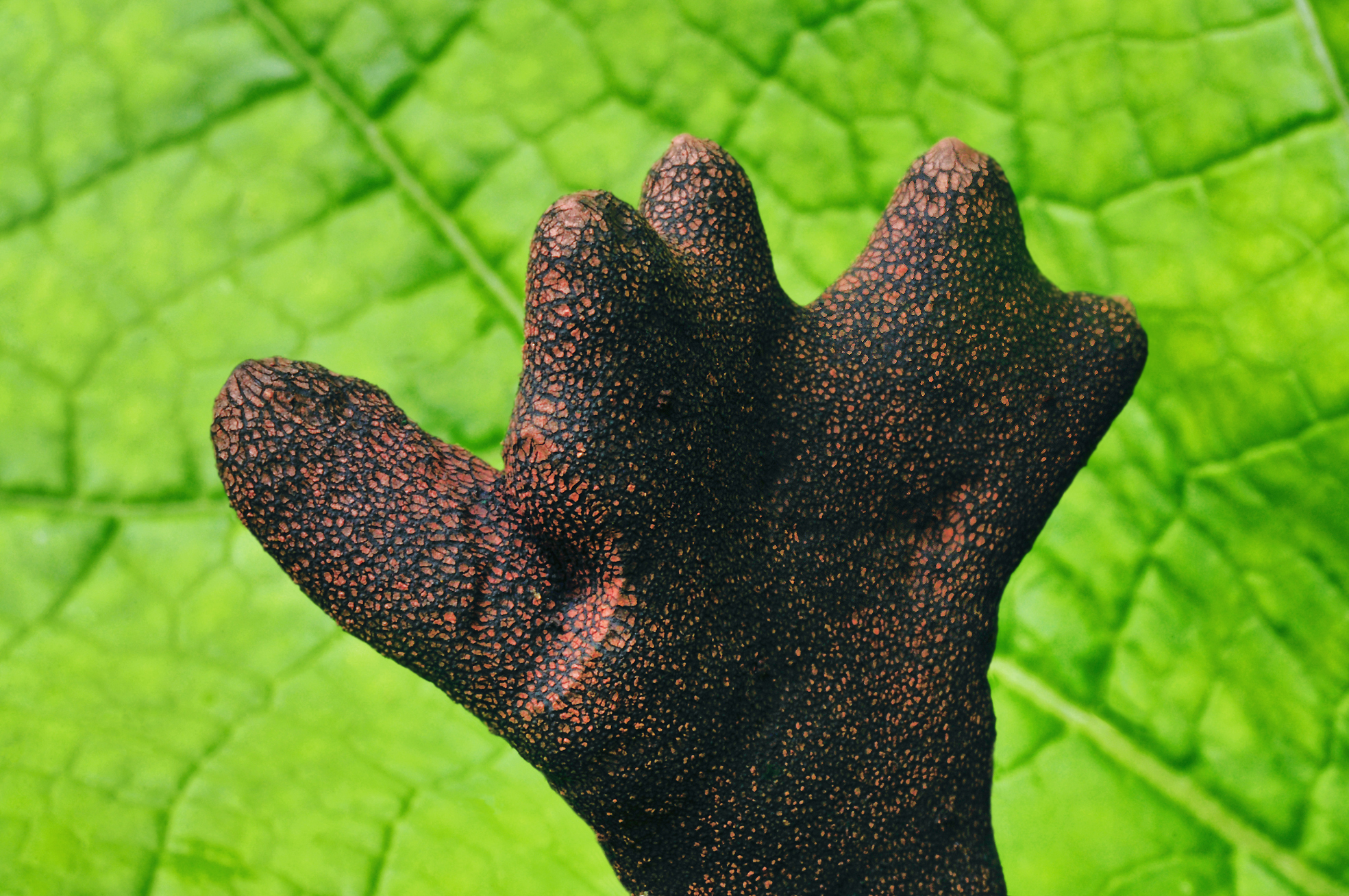 Dead man's fingers in the Wisentgehege Springe game park near Springe, Hanover, Germany. The "dead man's fingers" grows on the ground, the plant with the leaf grows in the background. I needed aperture 40 to show all tiny details smaller than 1 mm in the different fingers, therefore I got no bokeh in the background and the leaf is visible. But the leaf shows the tiny size by the "dead man's fingers". Visible of the "dead man's fingers" is only the hand (or head) in a large enlargement. The hand has a size of nearly 2 x 2 cm.